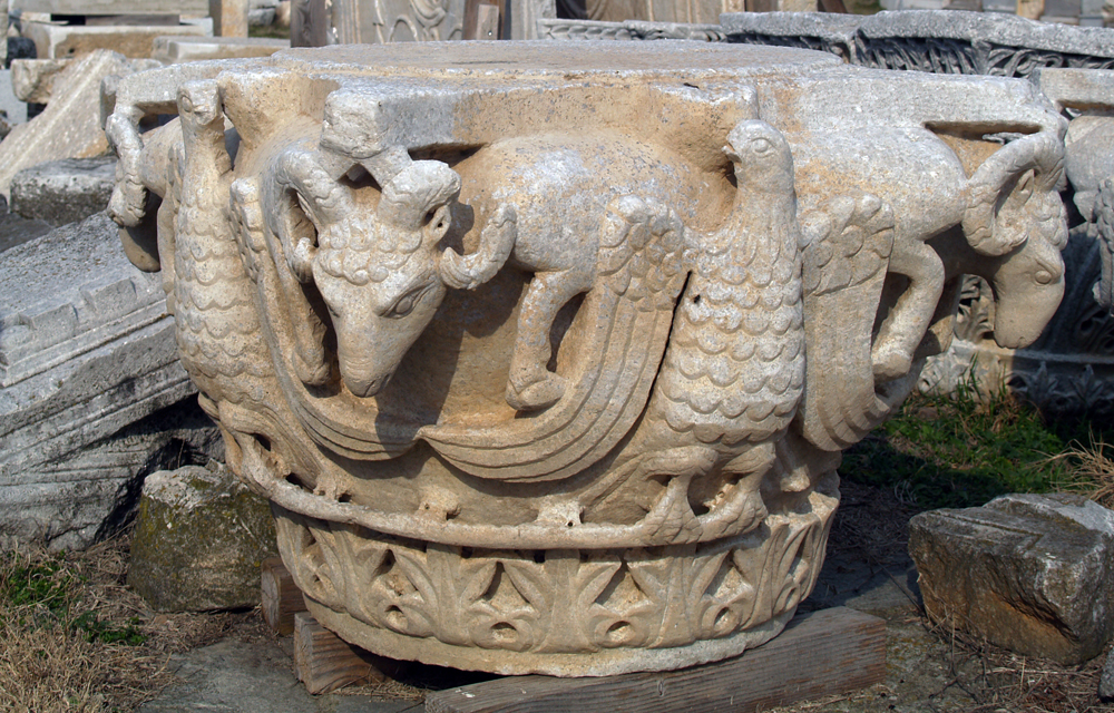 Capital from Phillippi, Greece